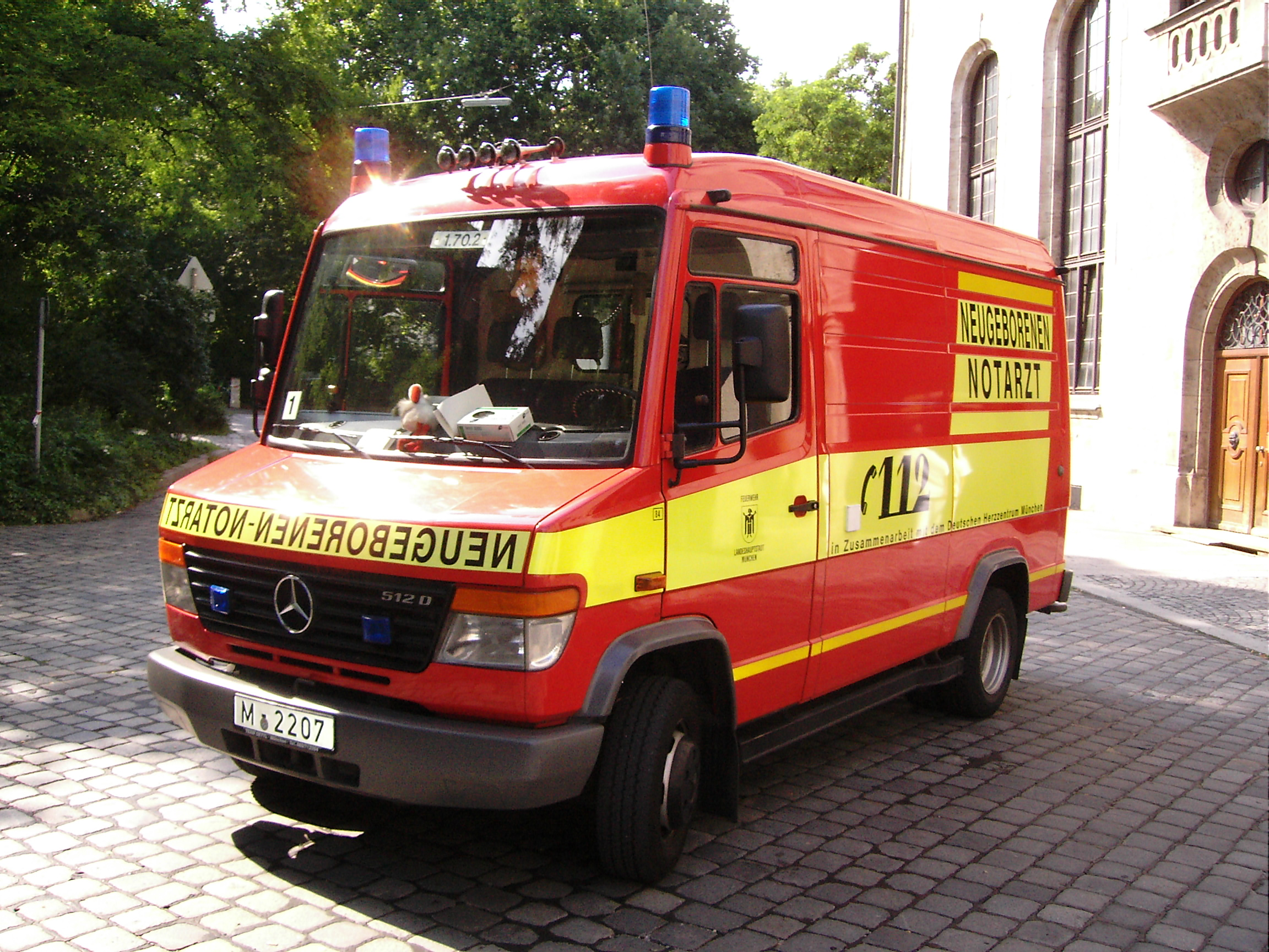 Ambulance with "NEUGEBORENEN NOTARZT" in mirror writing ("TZRATON-NENEROBEGUEN").